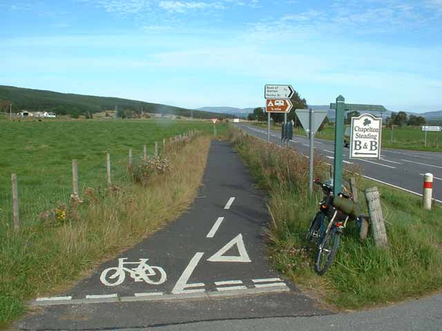 Cycle crossing of the A95 near Boat of Garten